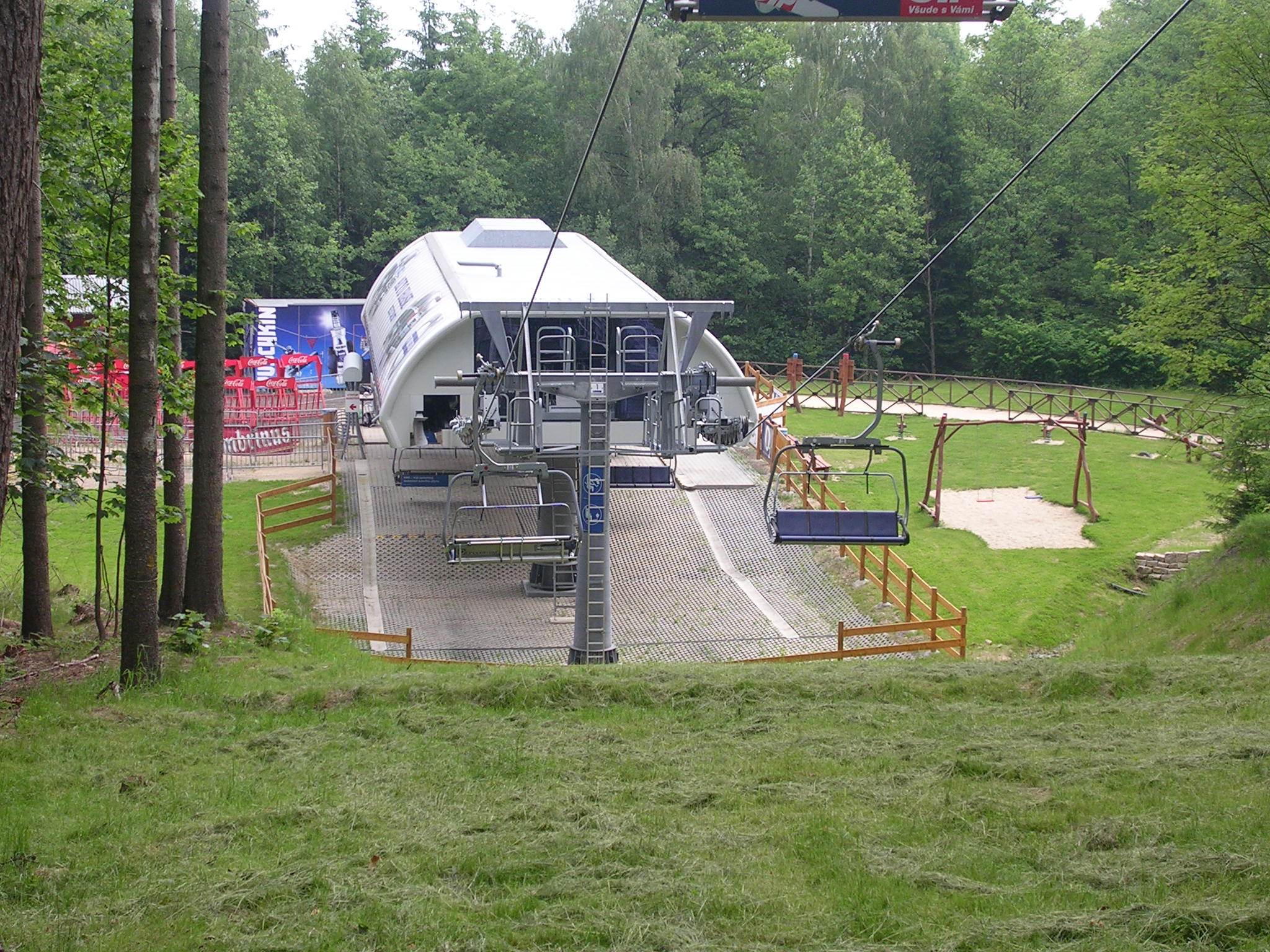 Liberec.